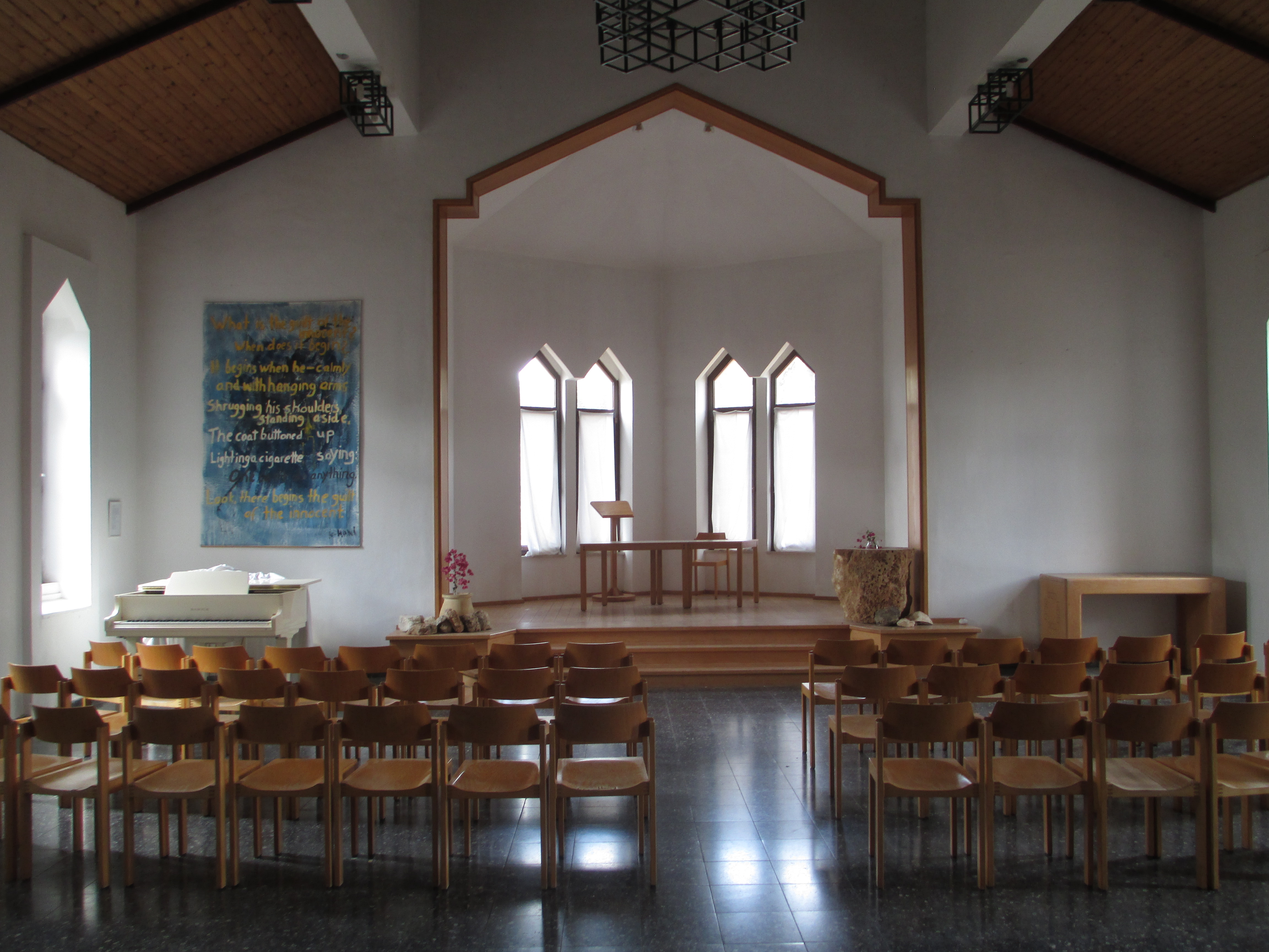 House of Prayer and Study in Nes Ammim